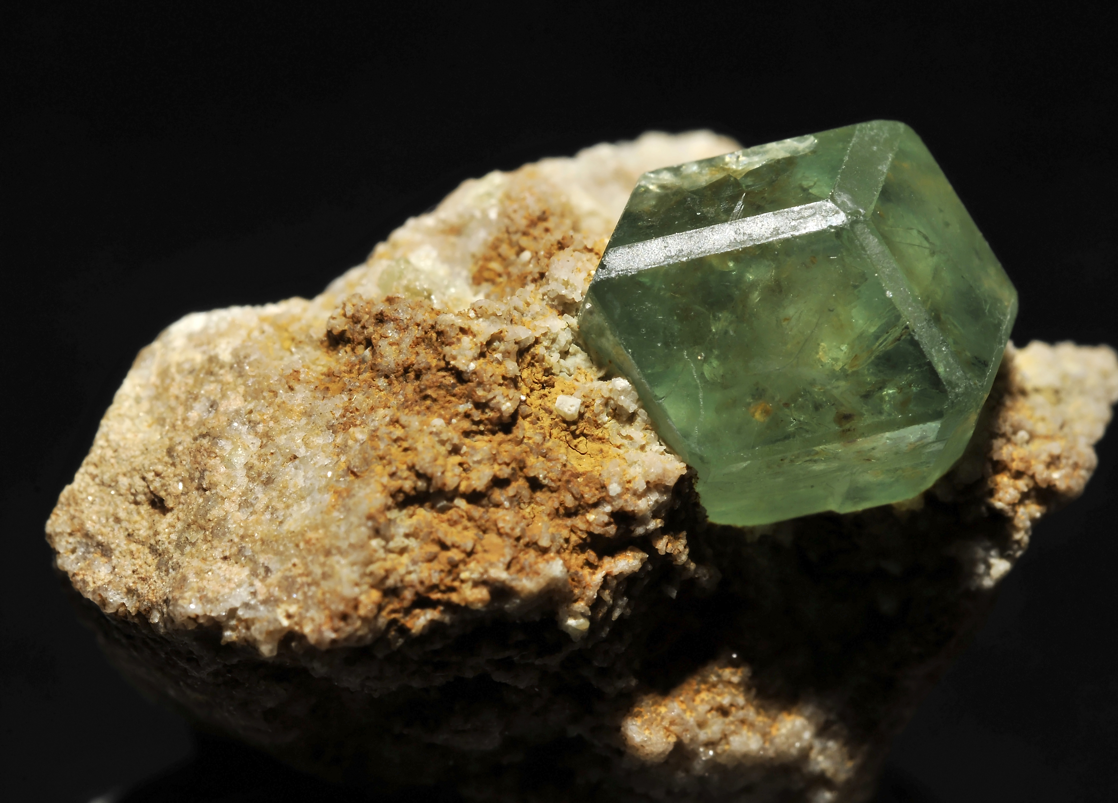 garnet var. andradite : Antetezambato (Tetezambato), Ambanja District, Diana (Northern) Region, Antsiranana Province, Madagascar